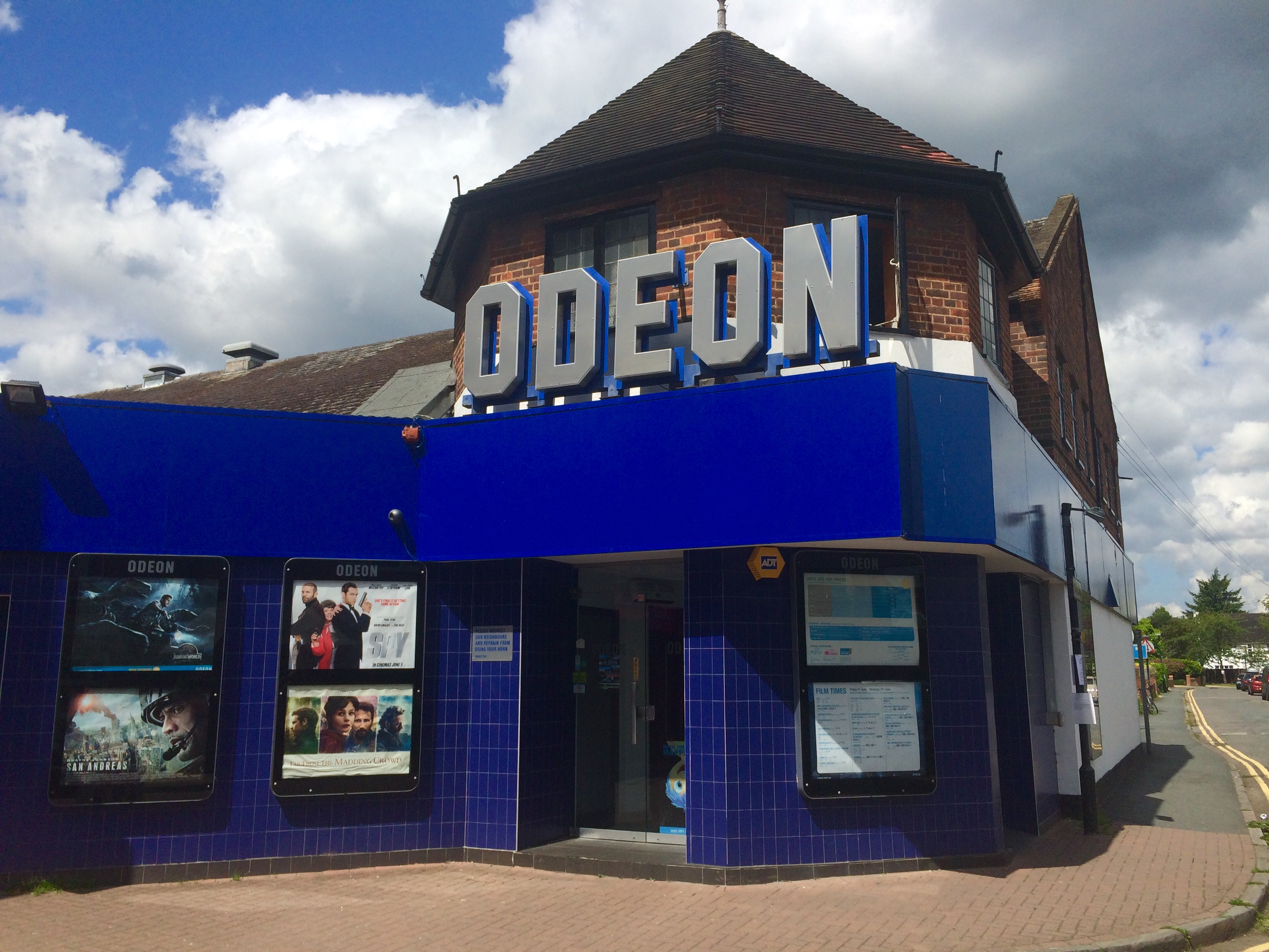 Facing the front facade of the Odeon Gerrards Cross in 2015.